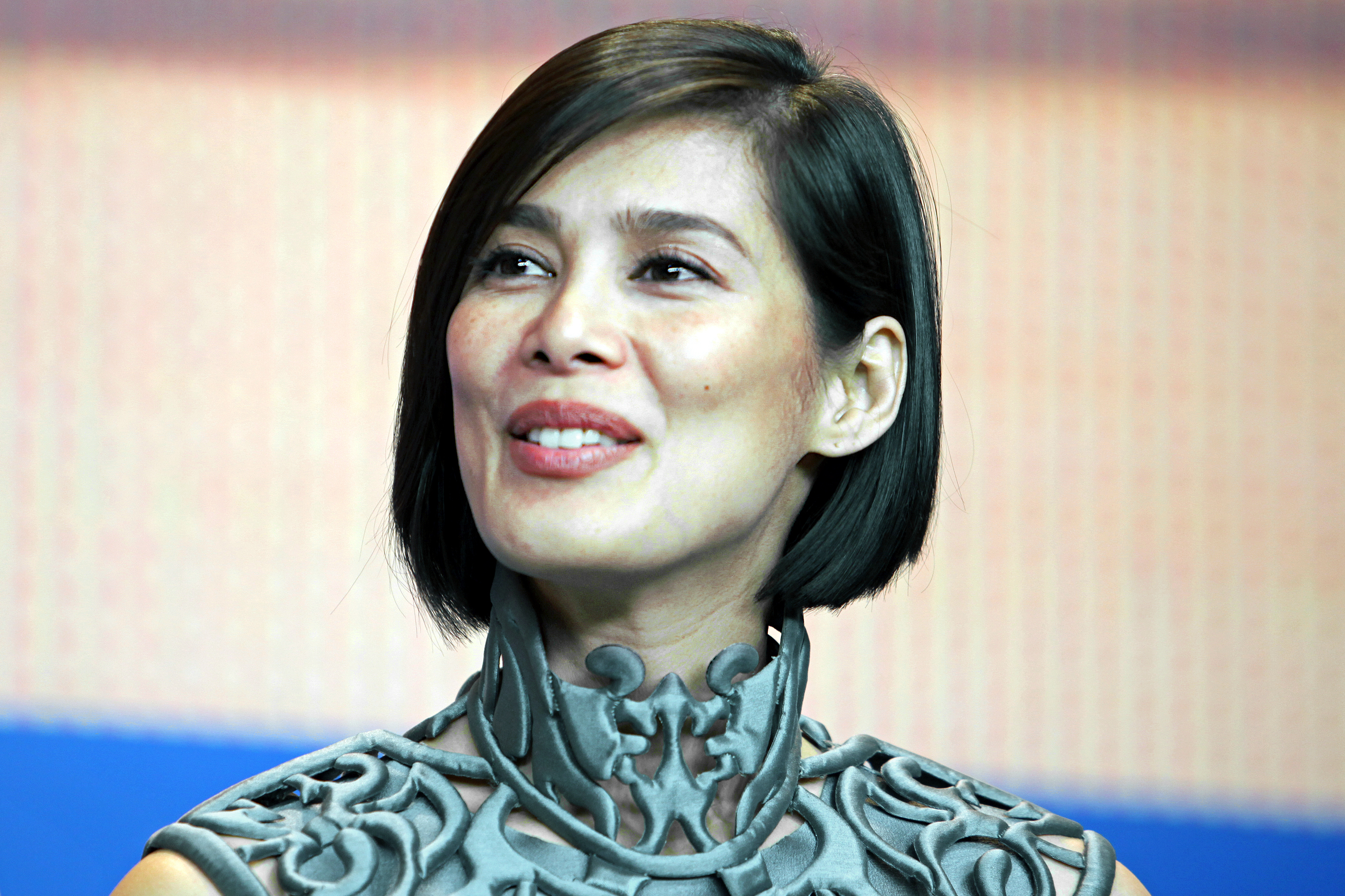 Filipino film actress and fashion model Angel Aquino at the Berlinale 2016.